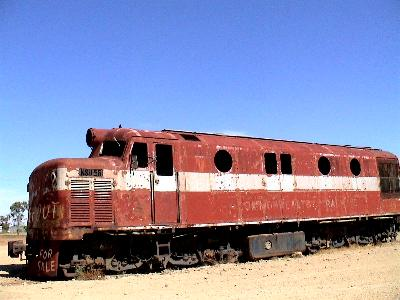 Preserved NSU class diesel locomotive in Marree (Australia) by urban-b.de